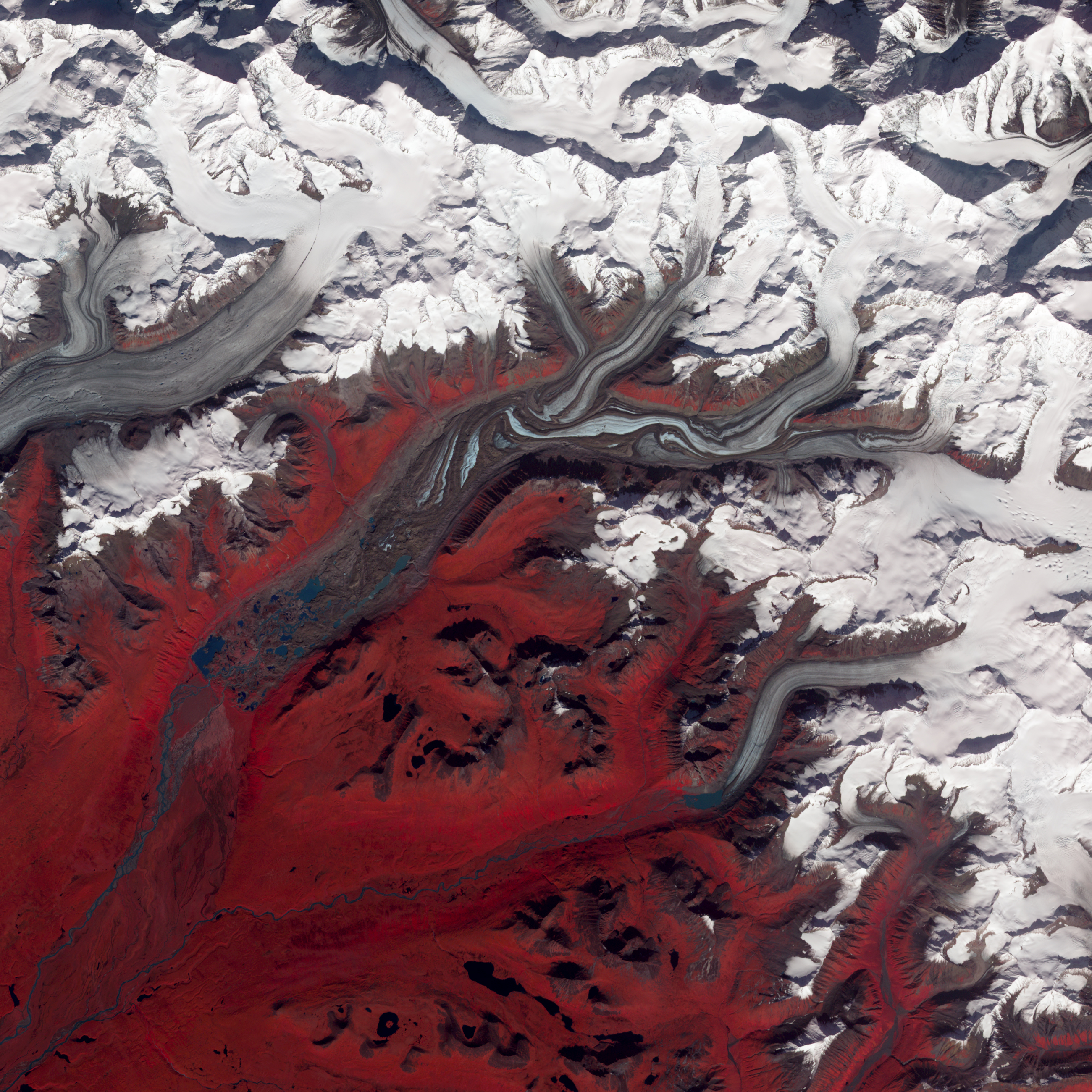 This false-colour image of Susitna Glacier looks similar to an areal photograph, except that vegetation is red. Susitna Glacier’s surface is marbled, combining dirt-free pale blue and dirt-coated dark brown ice. Infusions of relatively clean ice push into the glacier from tributaries flowing from the north. The glacier surface appears especially complex near the centre of the image, where ice from a tributary has pushed ice in the main glacier slightly southward. Susitna Glacier flows over a seismically active area. In fact, a 7.9-magnitude quake struck the region in November 2002, along the previously unknown Susitna Glacier fault. Although geologists surmised that this and other earthquakes left steep cliffs and slopes on the glacier surface, the complex glacial surface apparent in this image results from surges of tributary glaciers. Glacier surges—typically short-lived events where a glacier moves many times its normal rate—can occur when melt-water accumulates at the base of the glacier. The water provides lubrication that quickens flow. This water may be supplied by melt-water lakes that accumulate on top of the glacier, and melt ponds appear on the Susitna Glacier, in the lower left corner of this image. The nature of the underlying bedrock might also contribute to glacier surges, with soft, easily deformed rock leading to more frequent surges.